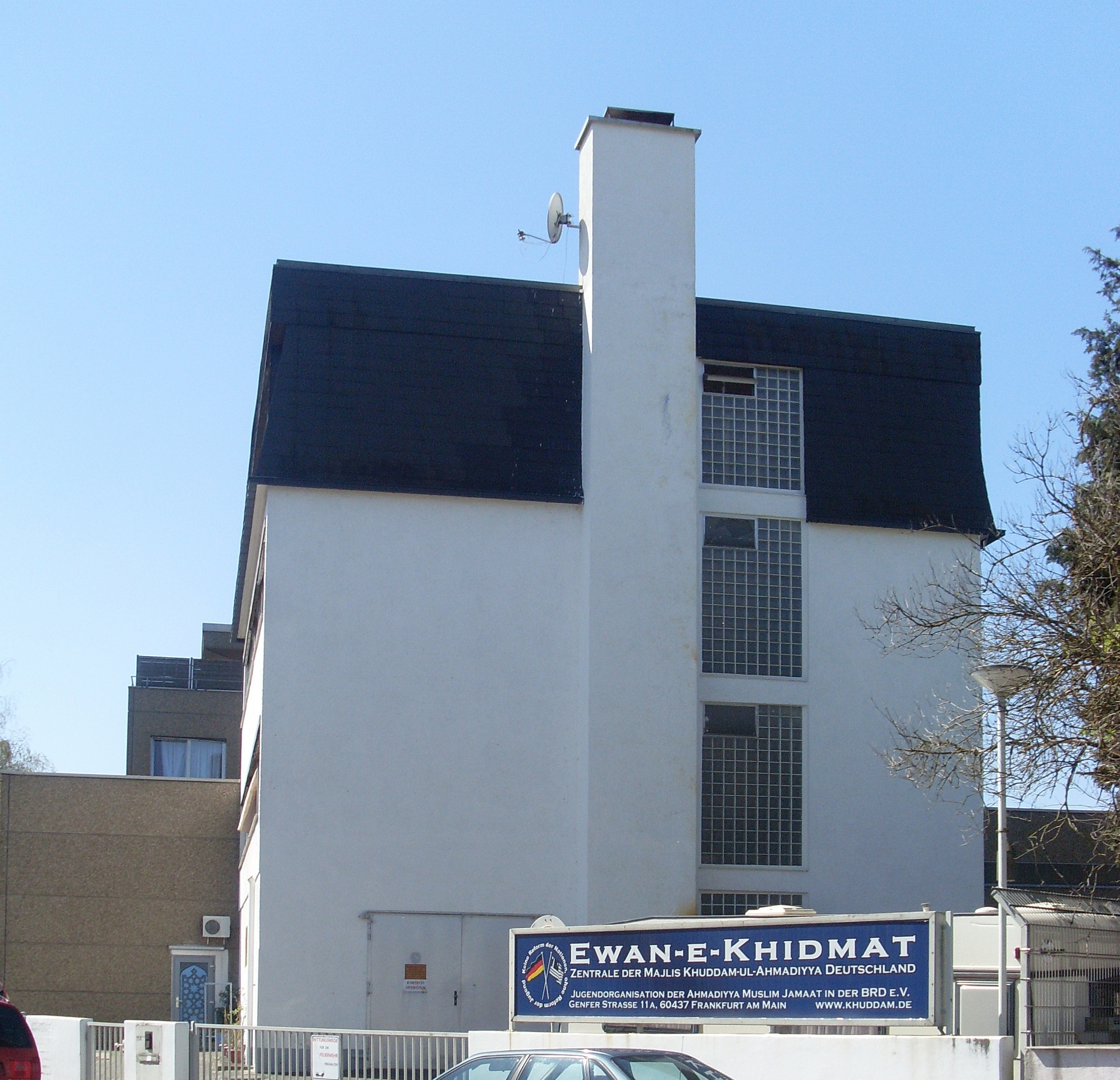 National headquarters of the Majlis Khuddam ul-Ahmadiyya Germany in Frankfurt